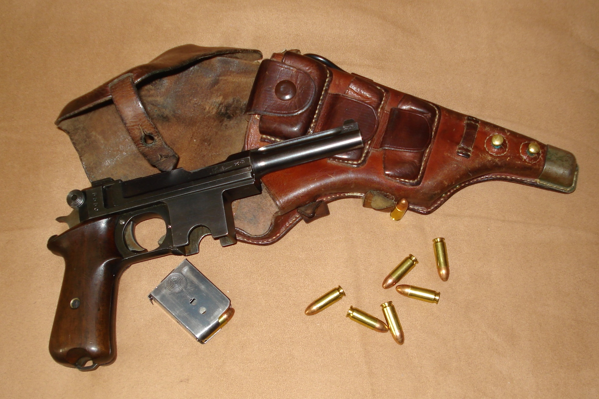 Danish 9 mm Bergmann M1910/21 pistol with military holster.